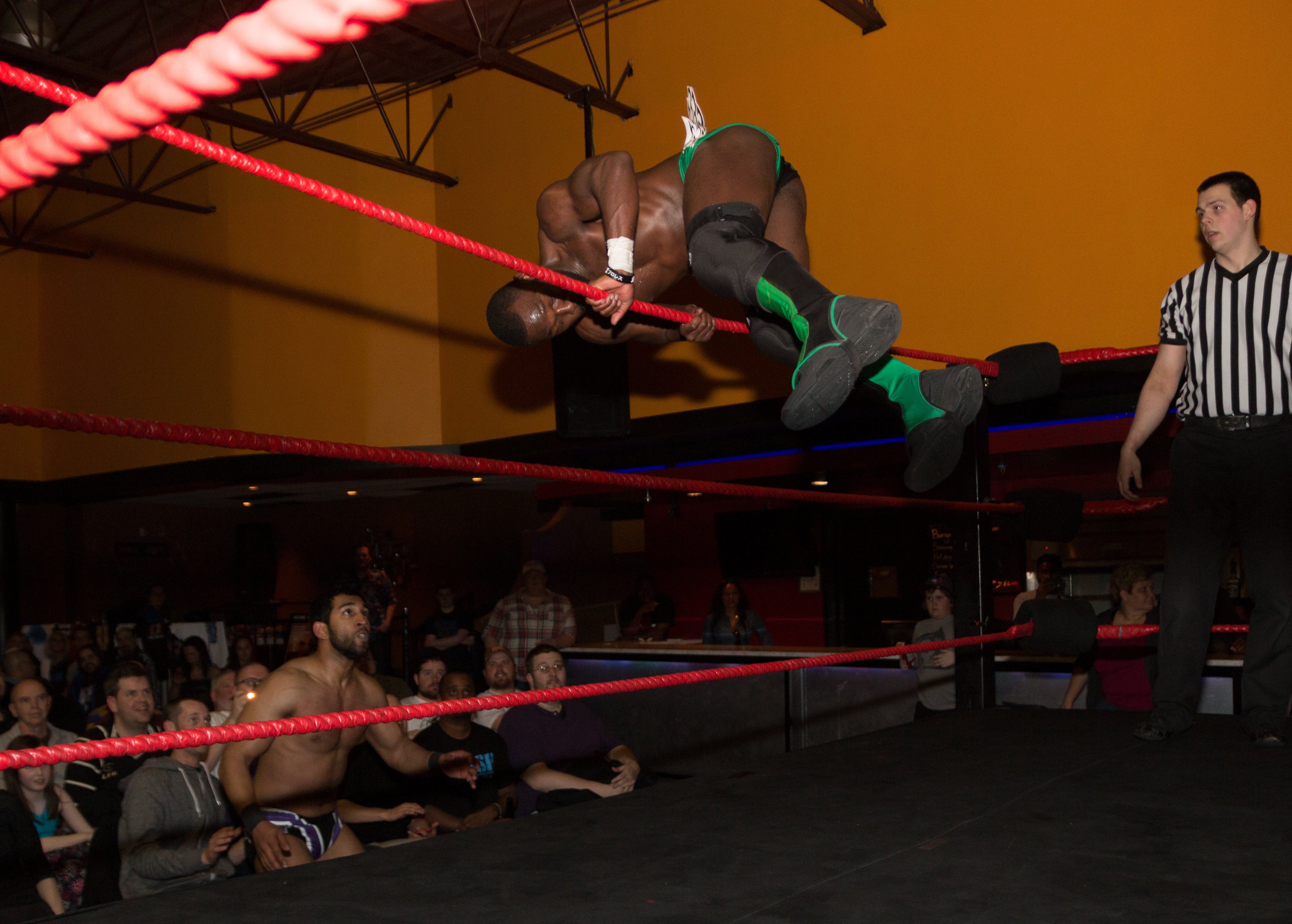 Rich Swann going over the top rope to land on Alex Vega